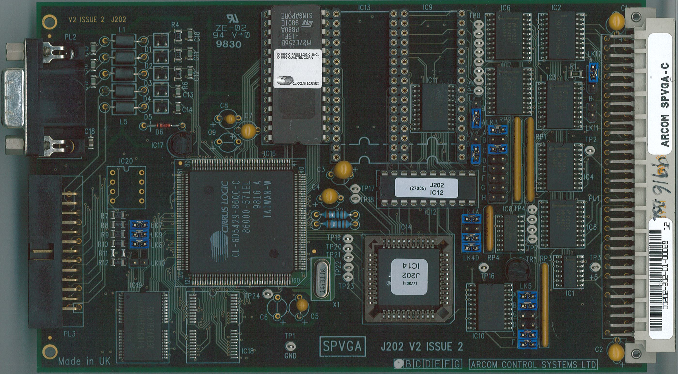 STEbus VGA and LCD board, on 100x160mm Eurocard. Designed by Arcom Control Systems in 1994.